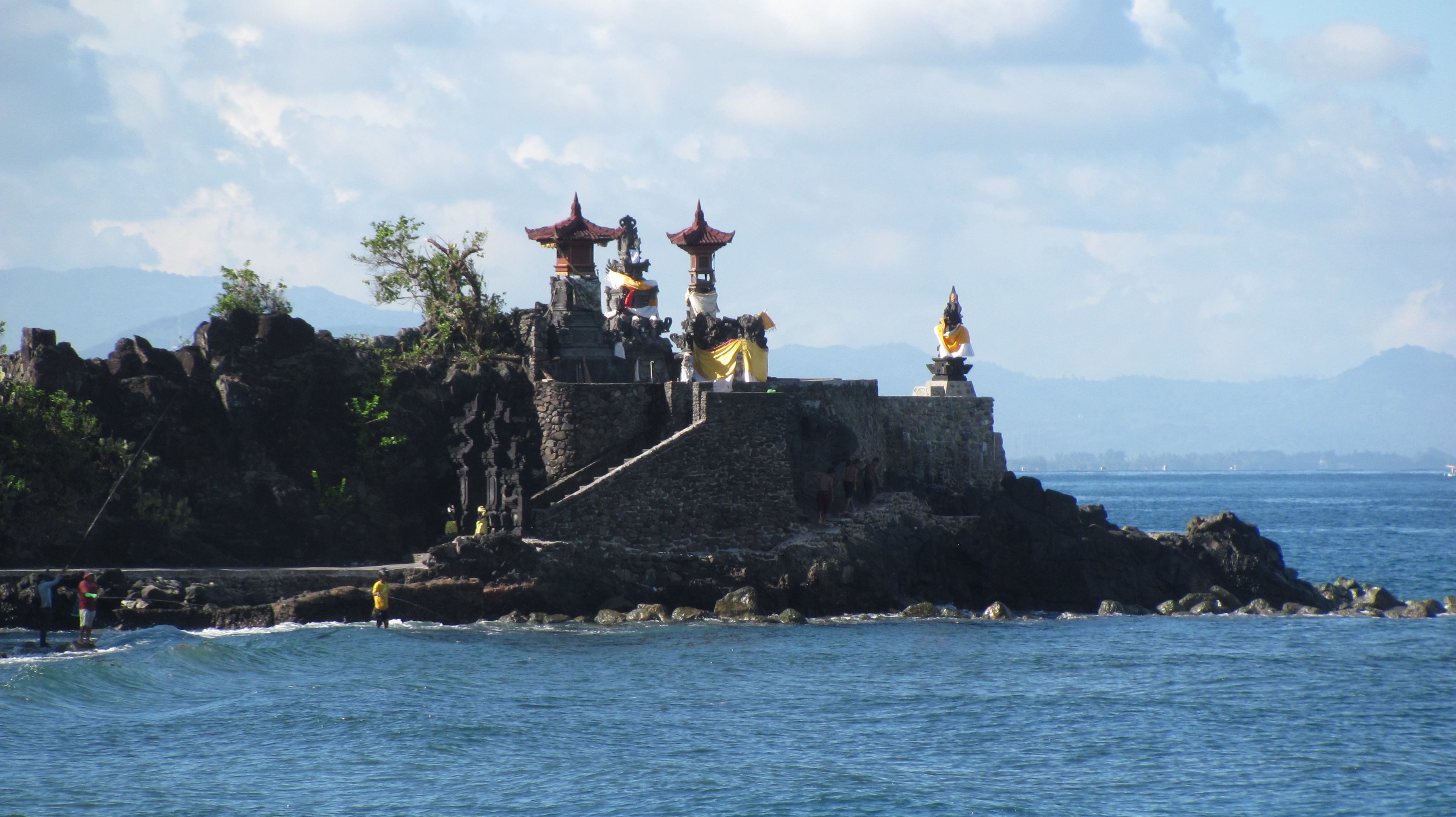 Pura Batu Bolong, Senggigi, Lombok, Indonesia